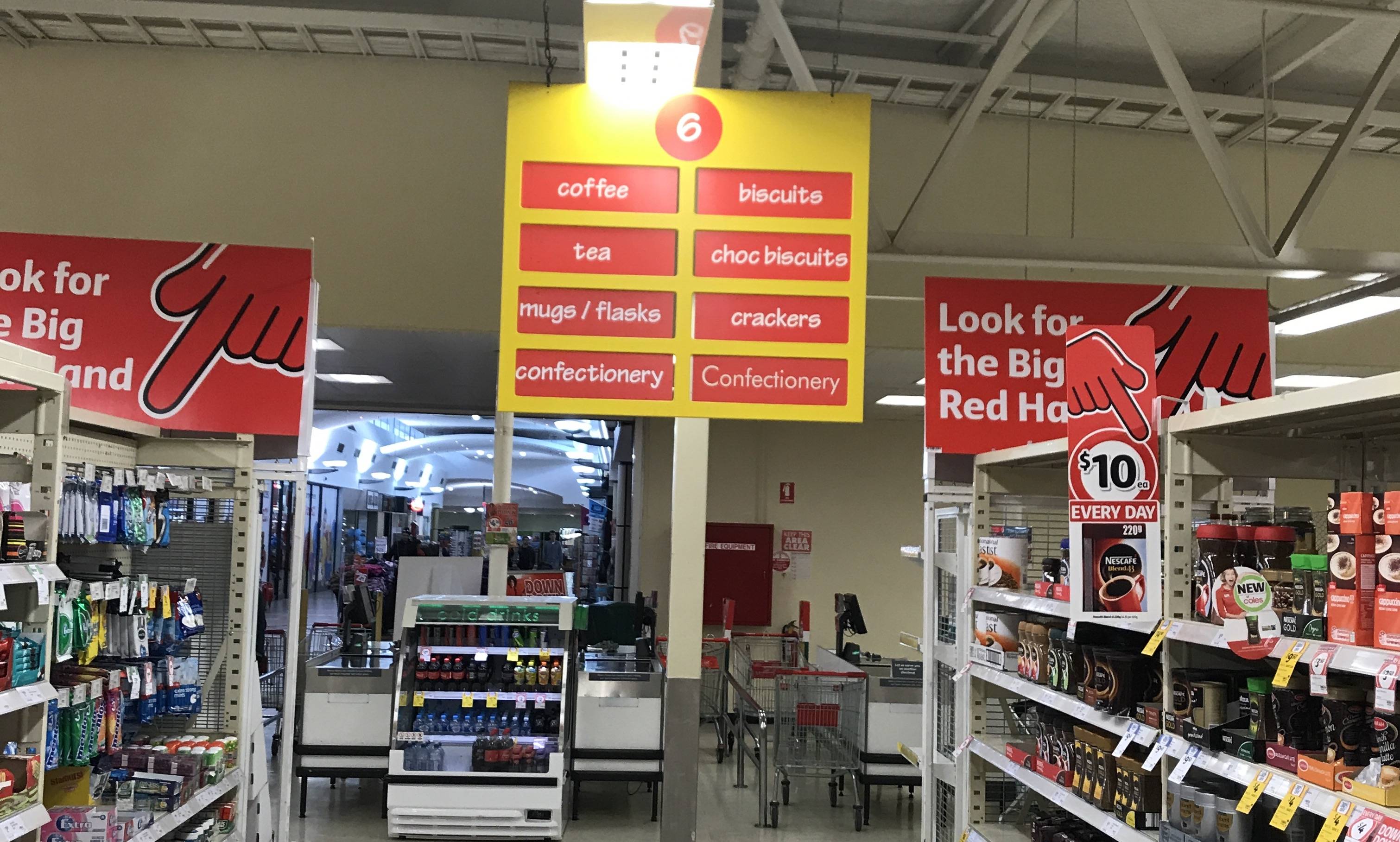 Coles Bentley still sports the Newmart Fitout in 2017.